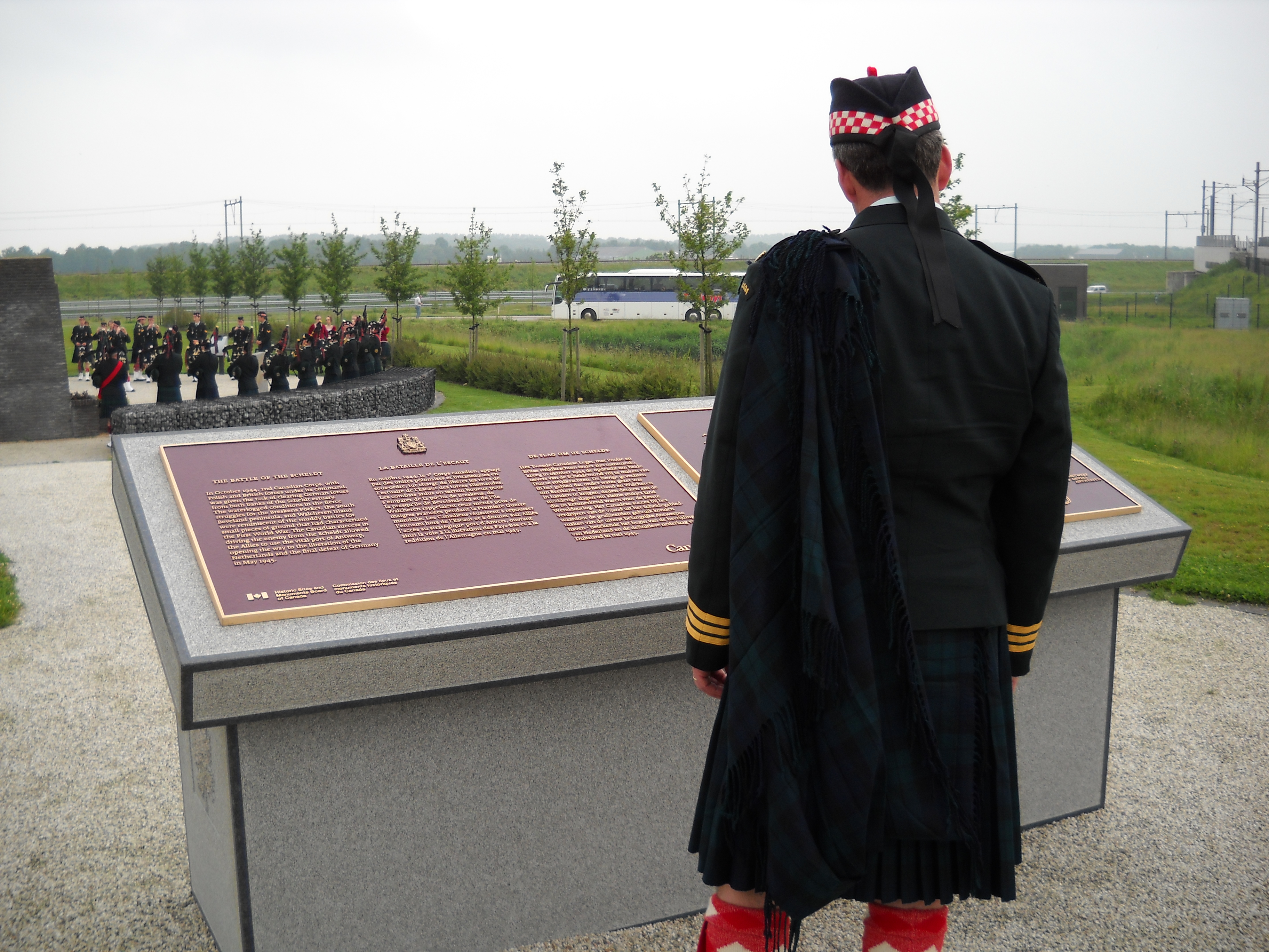 Lieutenant Colonel Mike Vernon, CD, Commanding Officer of The Calgary Highlanders, ponders the monument to the 5th Canadian Infantry Brigade erected at the site of the Walcheren Island Causeway, in memory of the sacrifice of the three Canadian regiments, as well as soldiers of the 52nd (Lowland) Division of the British Army who fought a pitched battle there beginning on Hallowe'en night 1944. The Calgary Highlanders sent a contingent to visit European battlefields in June 2010 to mark the centennial year of the regiment. In the background, the Regimental Pipes and Drums play at the site of monuments erected to the memory of Allied soldiers who fell fighting the Germans in the vicinity during the invasion of 1940.